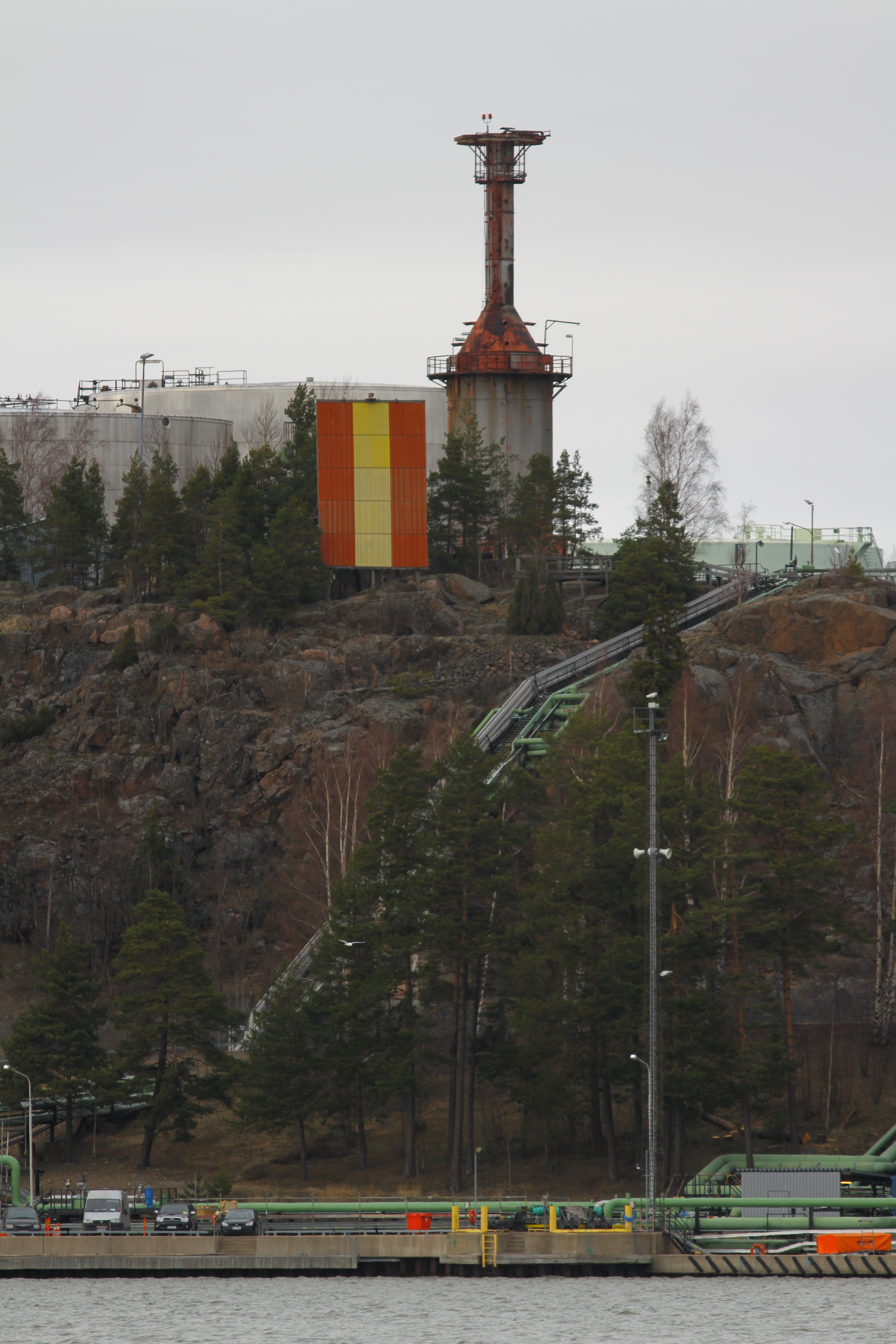 Tupavuori Tank Area. Neste Oil's Naantali refinery is located at Naantali in western Finland, close to Turku.